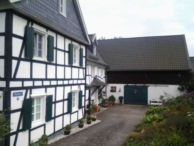 House and barn in Oeldorf (Kürten) naer Cologne, 20 August 2013. Photograph by Gustavo Oliveira Alfaix Assis.